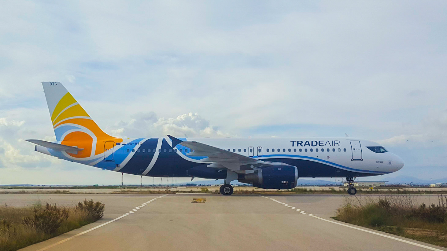 Trade Air Airbus A320 (9A-BTG) taxing at Enfidha Hammamet International Airport